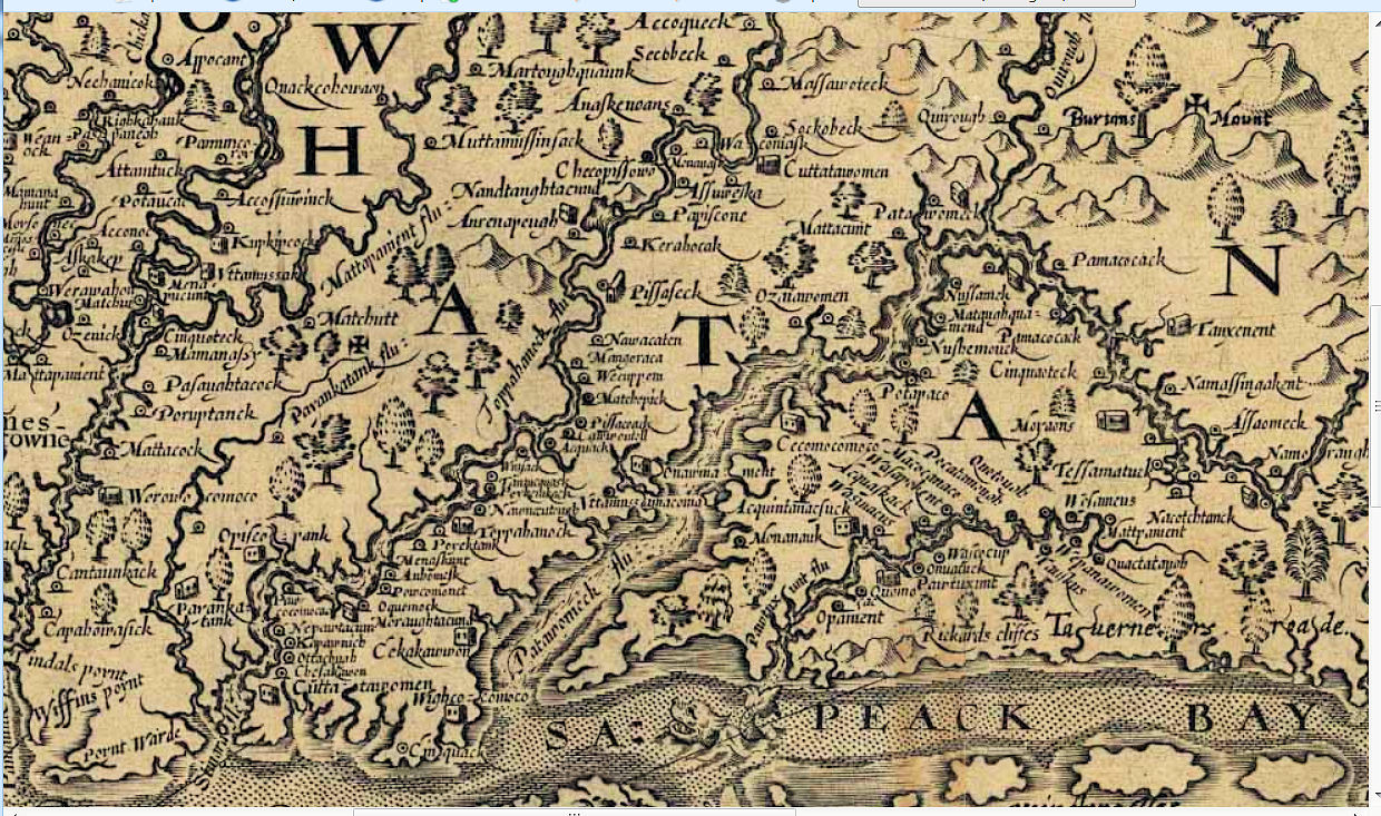 In 1608, Captain John Smith explored the river now known as the Potomac and made drawings of his observations which were later compiled into a map and published in London in 1612. This detail from that map shows his rendition of the river that the local tribes told him was called the "Patawomeck".